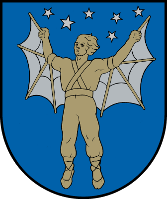 Coat of arms of Priekules novads, Latvia